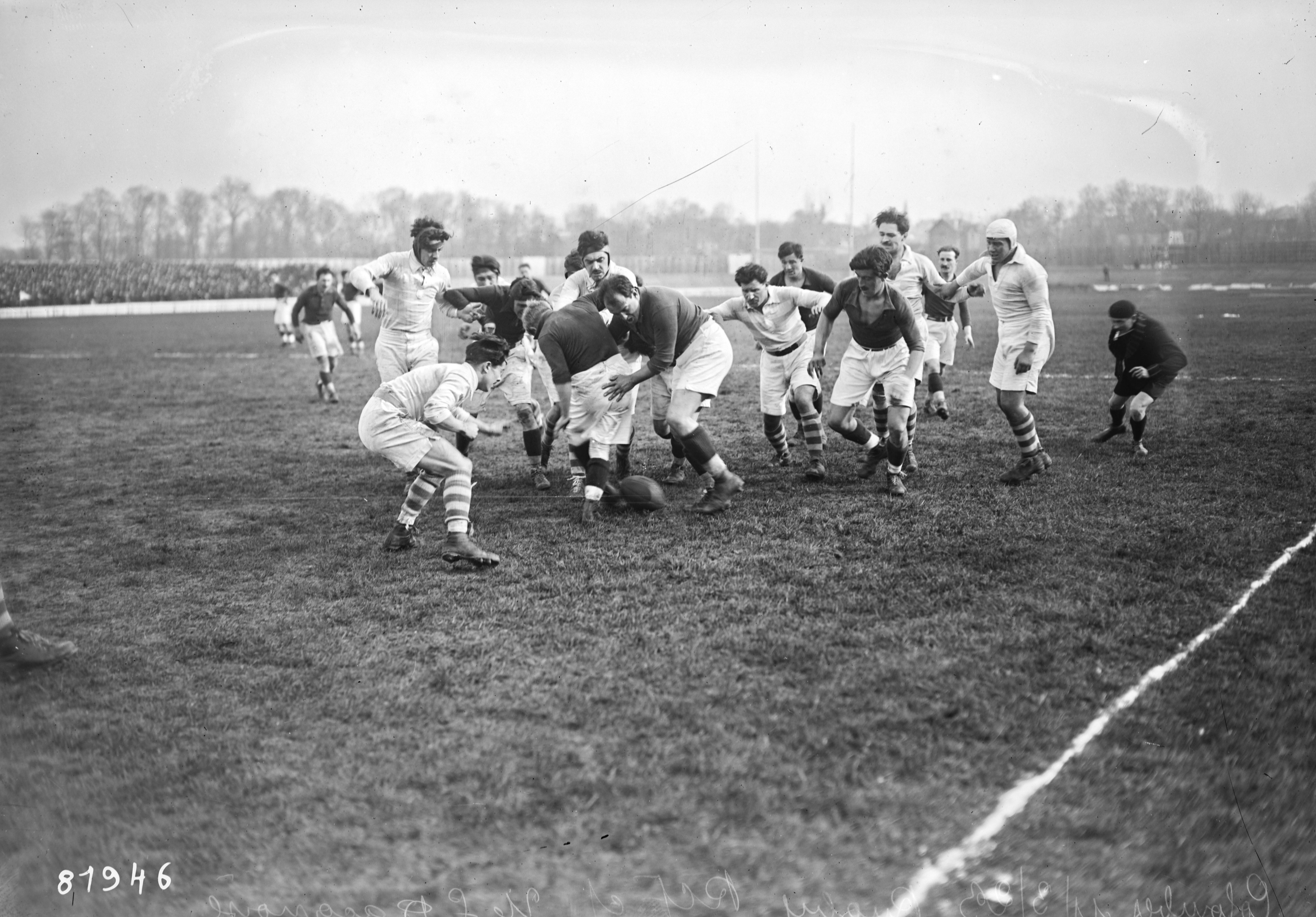 championnat de France 1922-1923 — 11 March 1923, Stade Olympique Yves-du-Manoir. Match between: Racing Club de France — US Dax